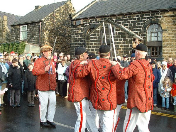 Description: The final figure of the Grenoside Sword Dance. Author/Uploader - photo by Gerry Bates Date/Place: 27 December 2004/Grenoside Village